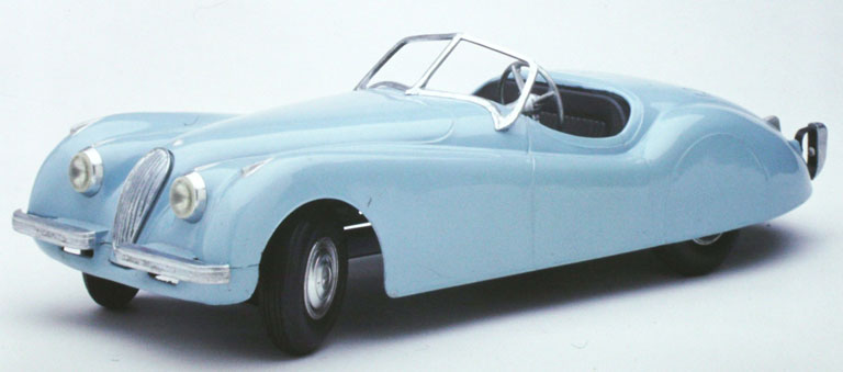 A toy Jaguar sports car in the permanent collection of The Children’s Museum of Indianapolis